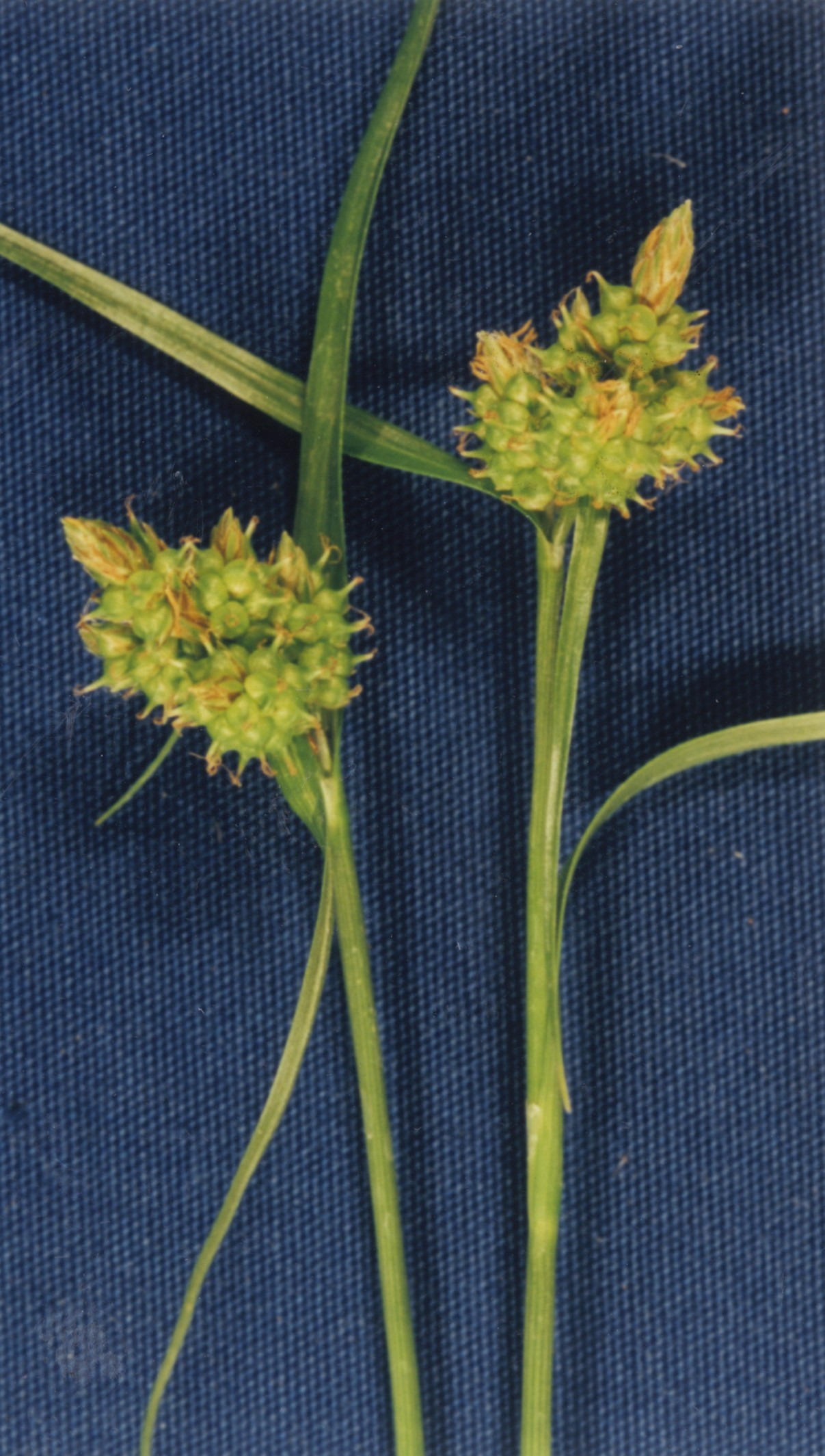 Carex serotina, Carex viridula Michx. ssp. viridula, little green sedge